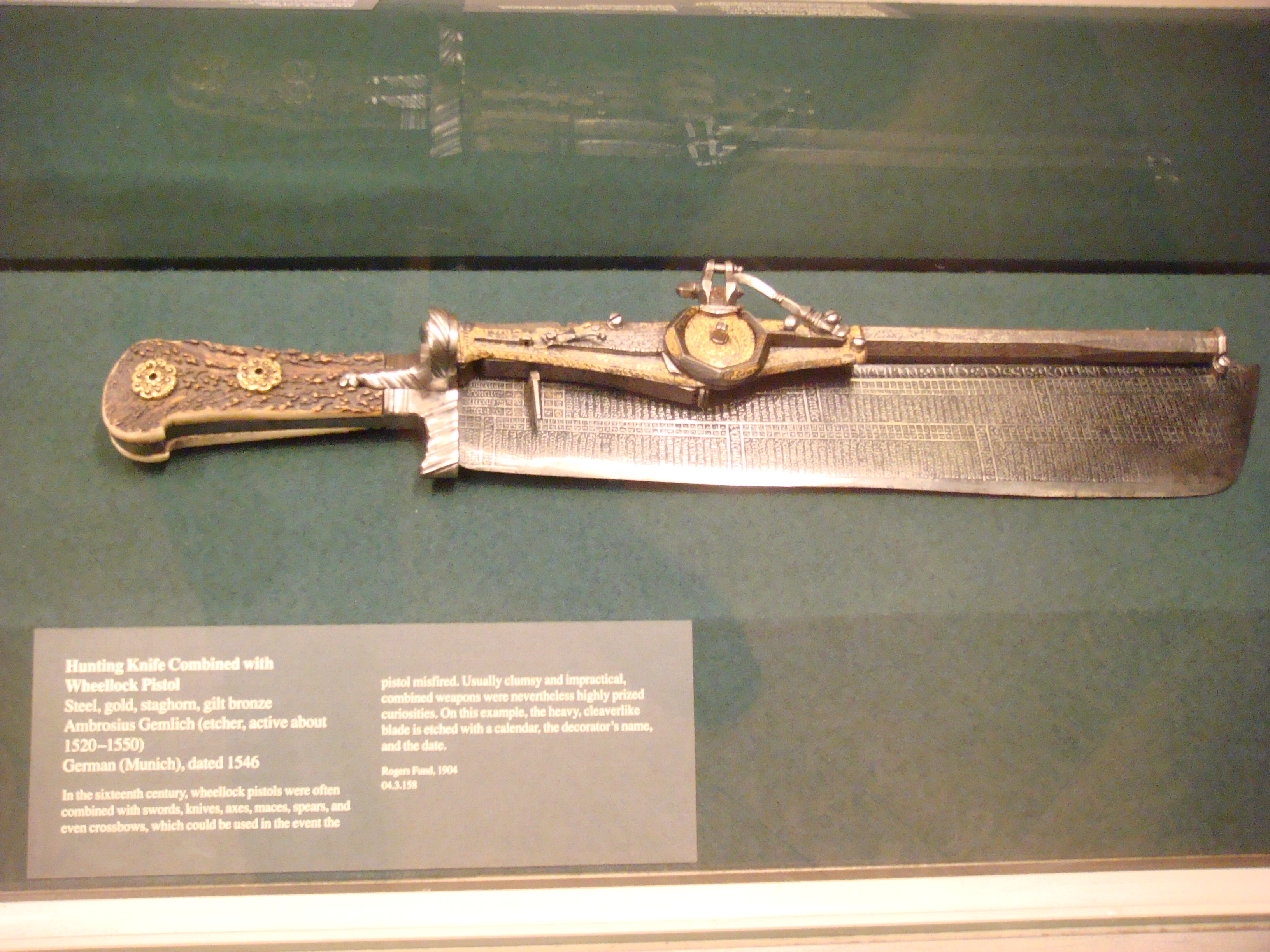 Hunting Kinf Combined with Wheellock Pistol Metropolitan Museum of Art New York